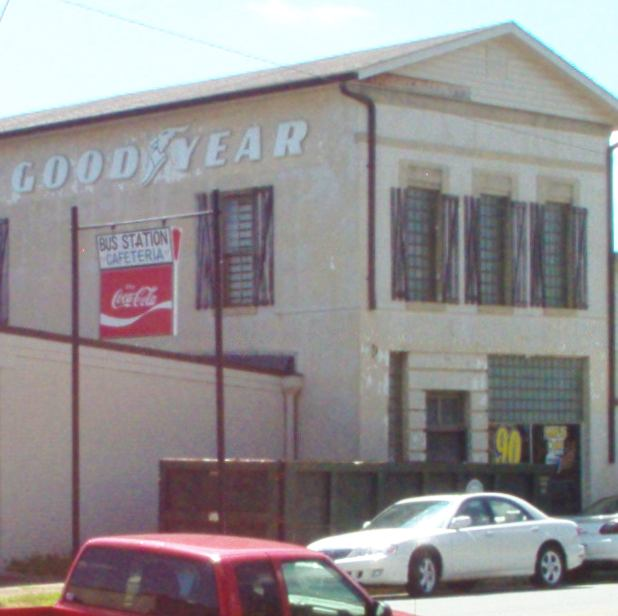 This is the Cedartown Bus Station in Cedartown. The building is no longer a functioning bus station, but the sign still remains. This picture demonstrates several pervasive features of Cedartown, Polk County, and Georgia in general: the legacy of Goodyear Tire and Rubber Company Coca-Cola advertisements lack of public transportation dependence on the automobile This picture was taken by Karl Ward on 9 September 2004. Copyright 2004 Karl Ward. . Karl Ward 20:15, 9 Sep 2004 (UTC) Captioned As { }